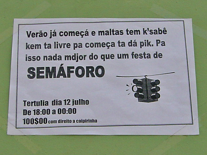 Diglossia: Ad in Creole; Mindelo, São Vicente Island, Cape Verde